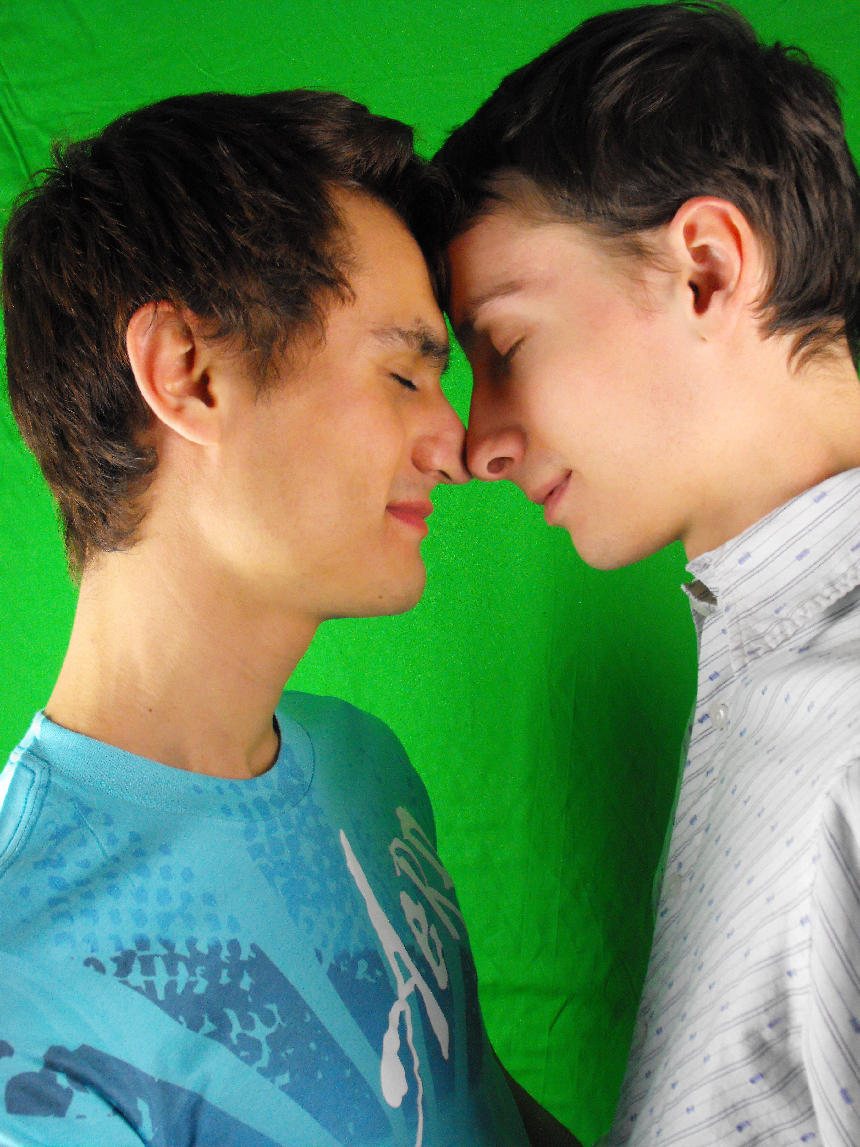 A young gay couple rub noses.